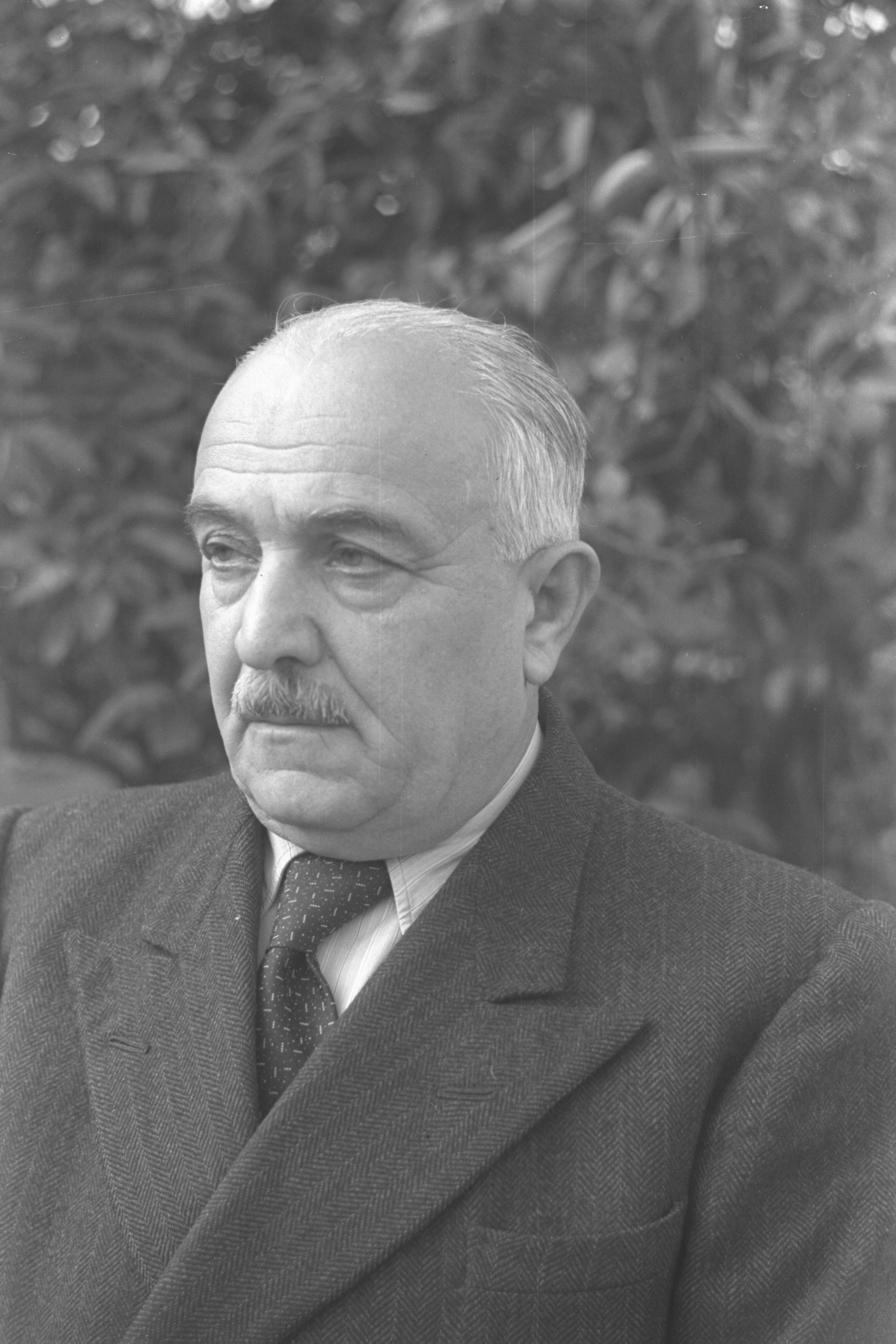 Mr. David Remez, minister of communications.